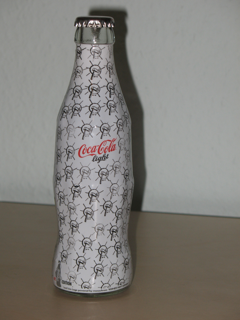 [ THE "LORD JIM LODGE", MONOCHROM AND THE FUTURE OF INDIVIDUALISM]